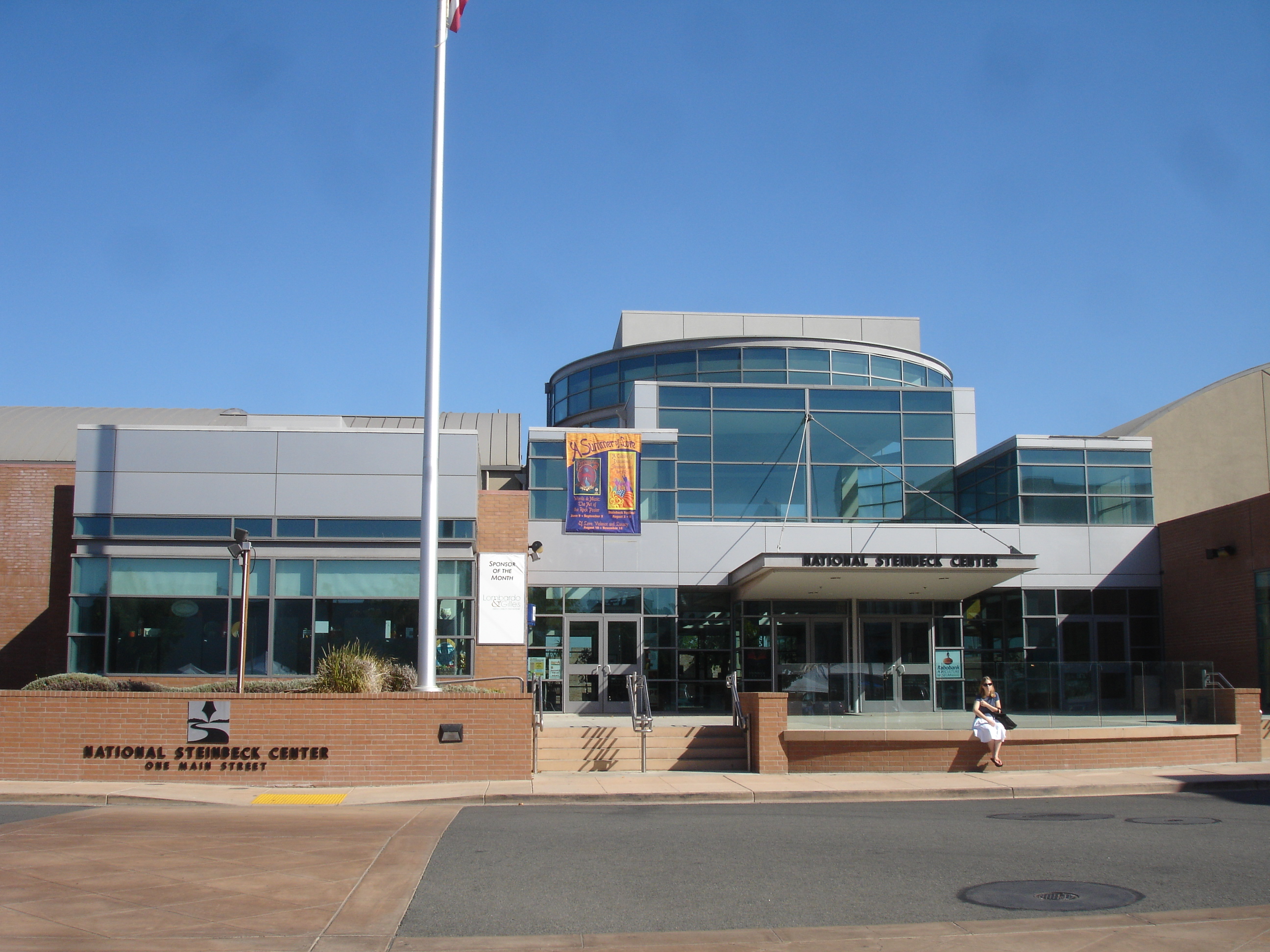 Own Work. 2007. National Steinbeck Centre, Salinas.